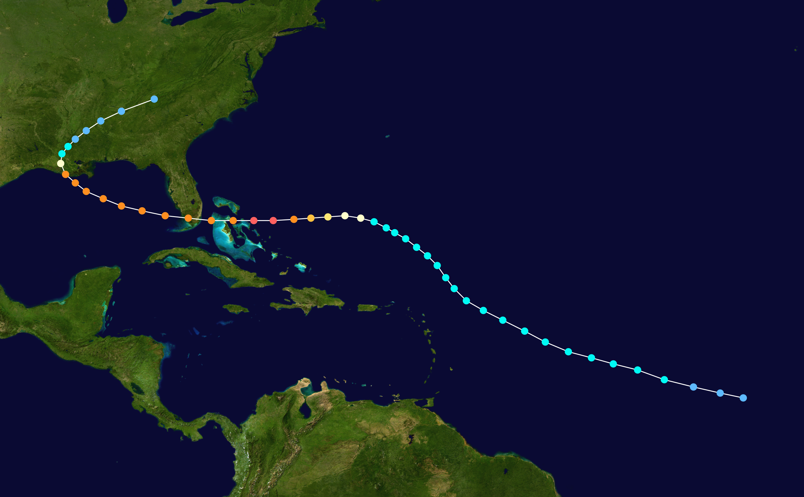 Track map of Hurricane Andrew of the 1992 Atlantic hurricane season. The points show the location of the storm at 6-hour intervals. The colour represents the storm's maximum sustained wind speeds as classified in the Saffir–Simpson scale (see below), and the shape of the data points represent the nature of the storm, according to the legend below. Saffir–Simpson scale Tropical depression≤38 mph≤62 km/h Category 3111–129 mph178–208 km/h Tropical storm39–73 mph63–118 km/h Category 4130–156 mph209–251 km/h Category 174–95 mph119–153 km/h Category 5≥157 mph≥252 km/h Category 296–110 mph154–177 km/h Unknown Storm type Tropical cyclone Subtropical cyclone Extratropical cyclone / Remnant low / Tropical disturbance / Monsoon depression